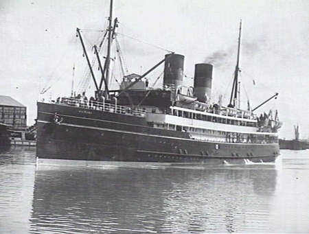 Port bow view of Bass Strait ferry Nairana, a turbine steamship that served as a Royal Navy seaplane tender in the First World War